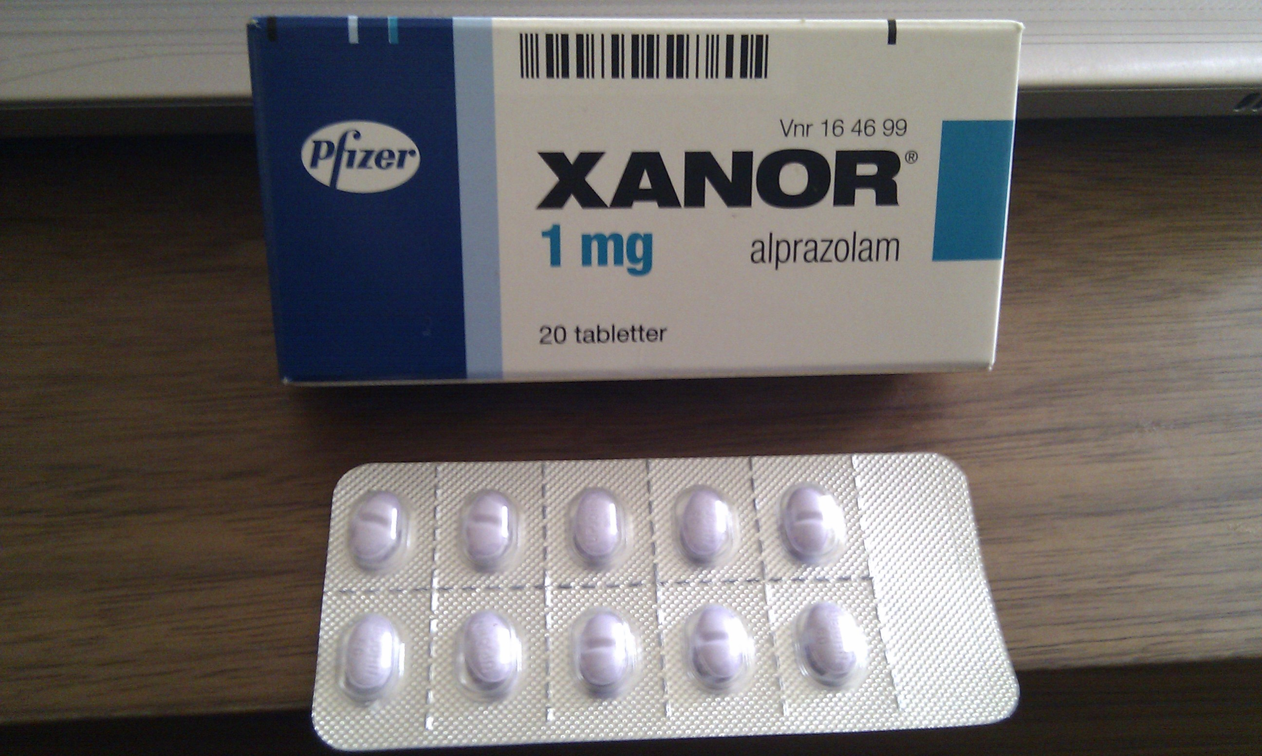 Xanor 1mg, Xanax